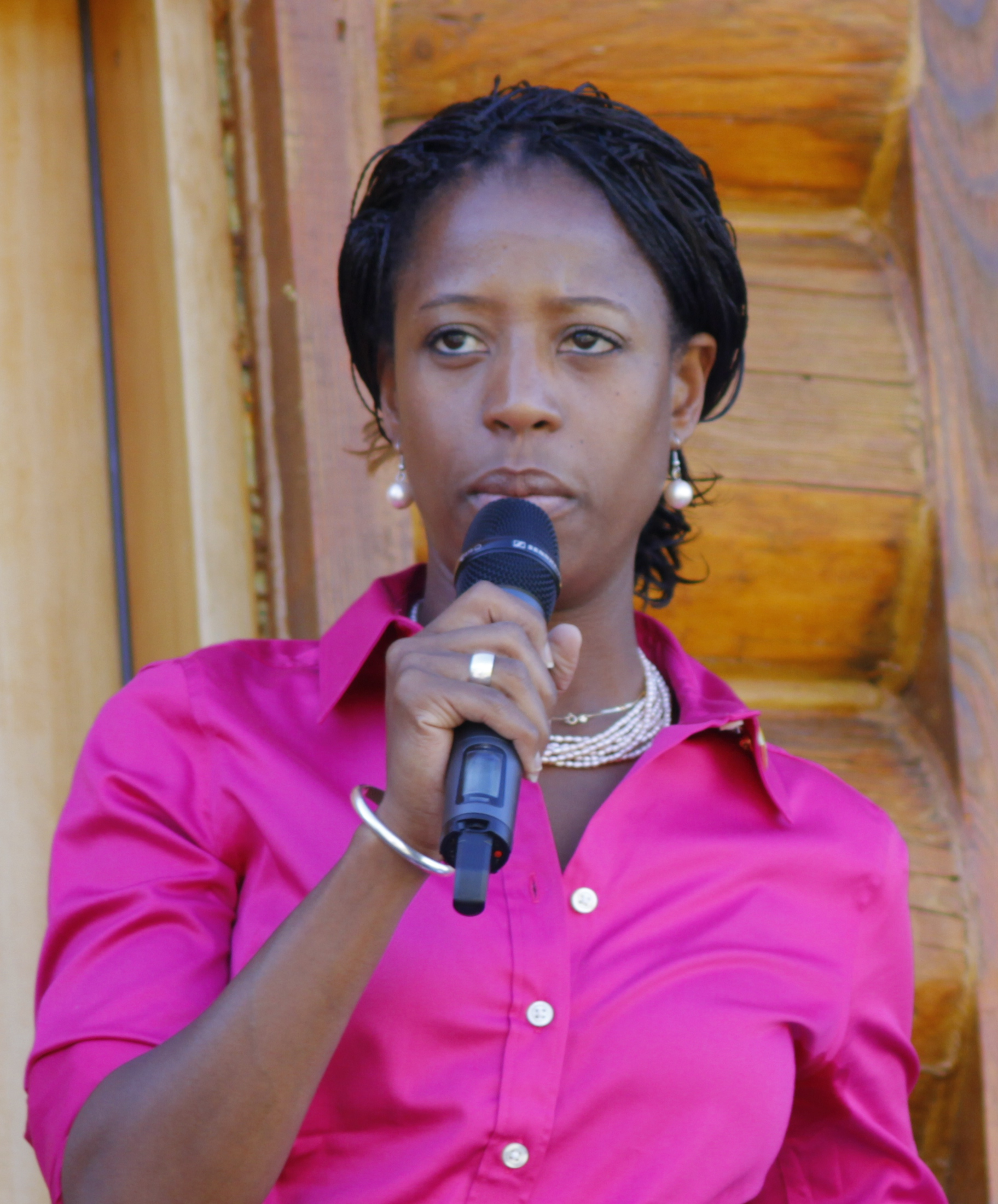 Mia Love at the Rocky Mountain Conservatives BBQ 2011